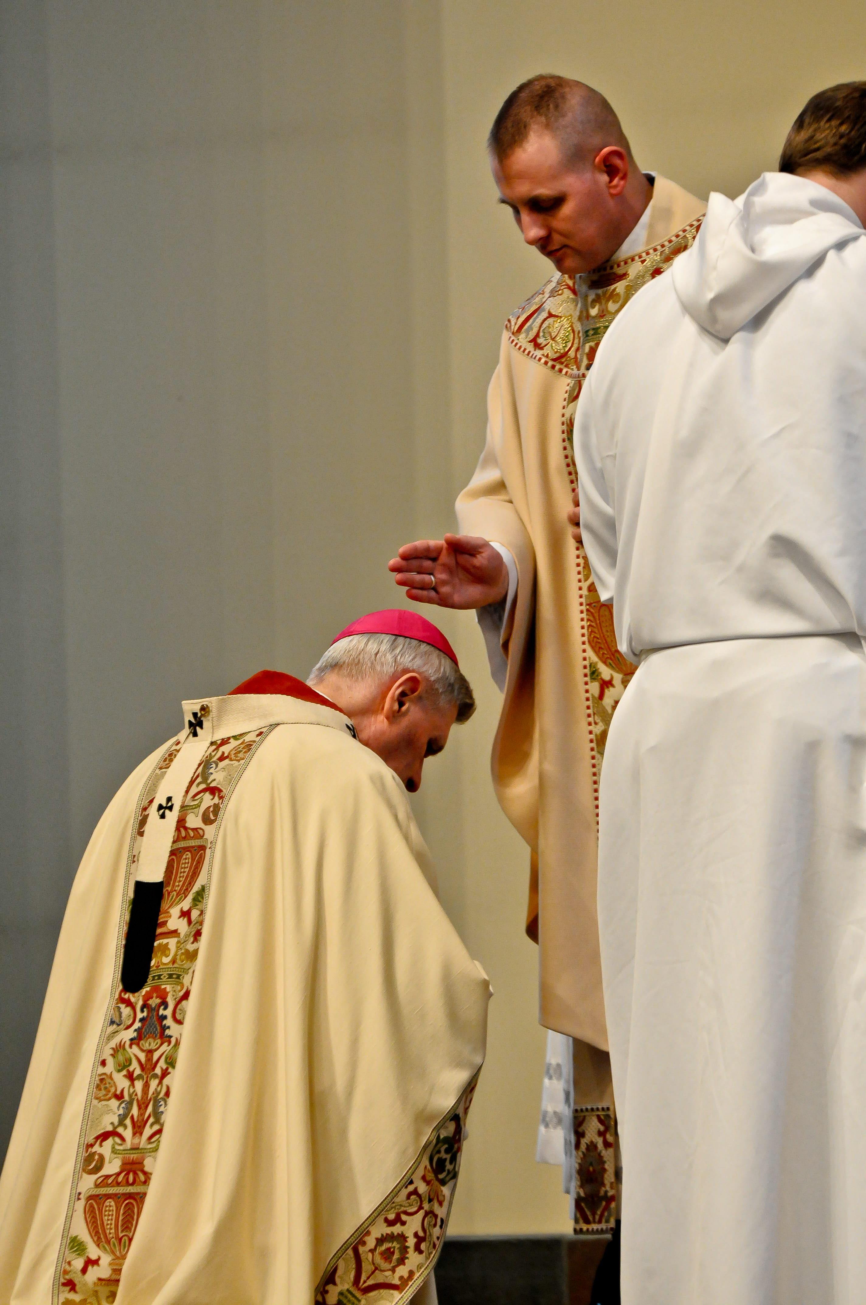 Former Anglican priest and U.S. Army Maj. Ken Bolin, brigade chaplain for the 4th Brigade Combat Team (Airborne), 25th Infantry Division, gives his first blessing as an ordained priest to Anchorage Archbishop Robert Schwietz at Our Lady of Guadalupe Parish March 7th. As an ordained priest, Bolin is authorized to celebrate both the standard Roman Missal Mass as well as the adapted Anglican Mass. Bolin is the newest of five married Catholic priests to currently serve in the chaplain corps on active duty in the U.S. Army. (Photo by U.S. Army Sgt. Eric-James Estrada) Unit: 4th Brigade Combat Team, 25th Infantry Division Public Affairs